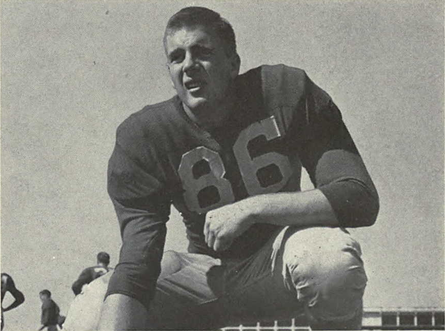 Photograph of Gene Knutson football player at the University of Michigan This work is in the public domain because it was published in the United States between 1923 and 1963 and although there may or may not have been a copyright notice, the copyright was not renewed. Unless its author has been dead for the required period, it is copyrighted in the countries or areas that do not apply the rule of the shorter term for US works, such as Canada (50 pma), Mainland China (50 pma, not Hong Kong or Macao), Germany (70 pma), Mexico (100 pma), Switzerland (70 pma), and other countries with individual treaties. See Commons:Hirtle chart for further explanation. This work is in the public domain in the United States because it was published in the United States between 1923 and 1977 without a copyright notice. See Commons:Hirtle chart for further explanation. Note that it may still be copyrighted in jurisdictions that do not apply the rule of the shorter term for US works (depending on the date of the author's death), such as Canada (50 p.m.a.), Mainland China (50 p.m.a., not Hong Kong or Macao), Germany (70 p.m.a.), Mexico (100 p.m.a.), Switzerland (70 p.m.a.), and other countries with individual treaties.